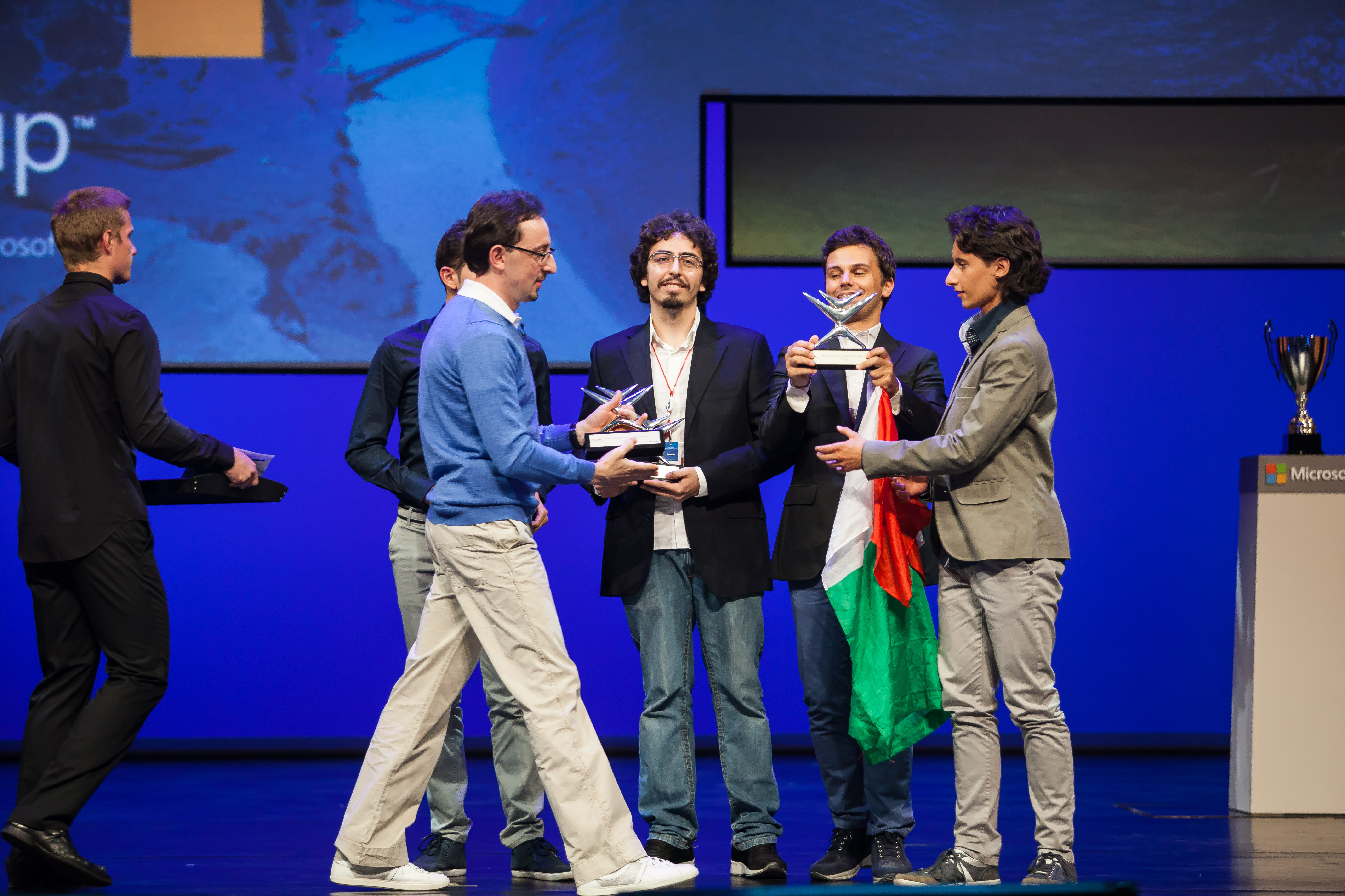 Imagine Cup 2013 Worldwide Finals event in St. Petersburg, Russia - July 8-11, 2013. Country/Region: Italy. Team: TeamNameException. Competition/Challenge: Windows 8 Challenge (1st-place winner). Project name: Ulixes. Team members: Alessio Regalbuto, Federico Tomasi, Luca Leone, Marco Rinaldi. Mentor: Tony Leone Other awards: 2nd-place winner, Mail.Ru Group Connected Planet Award. Eugene Malikov, Mail.Ru Group